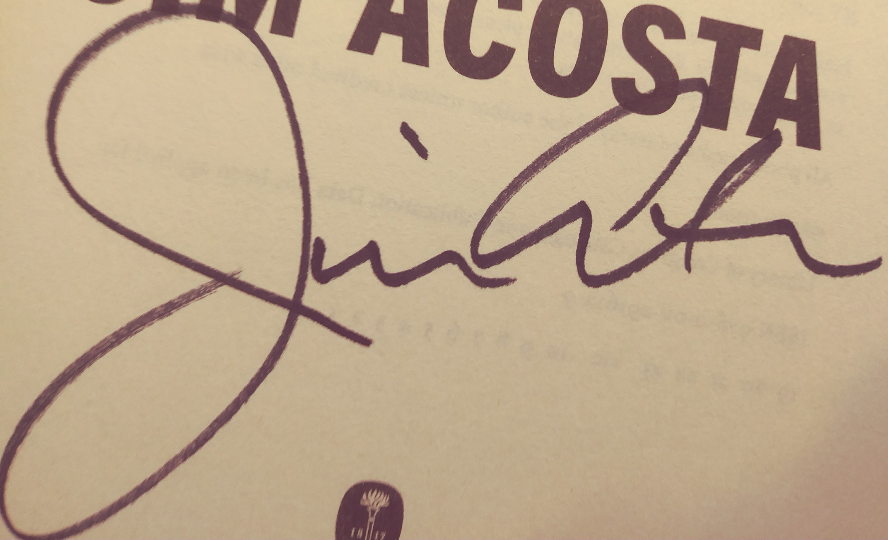 Jim Acosta's signature, cropped from an image of this signed page